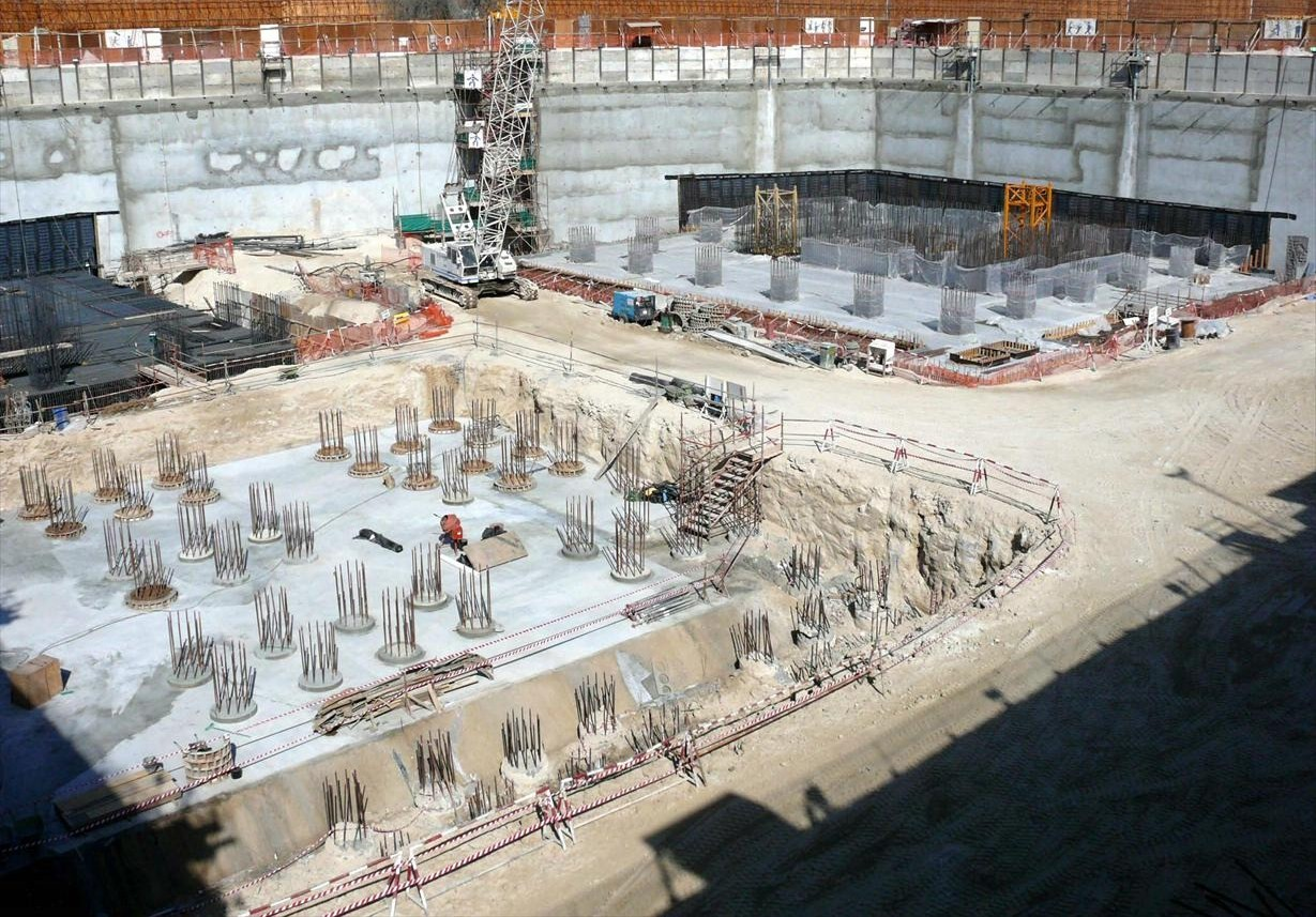 This is a photo showing the construction of Tiara United Towers, located in Dubai, United Arab Emirates, on 20 December 2007.